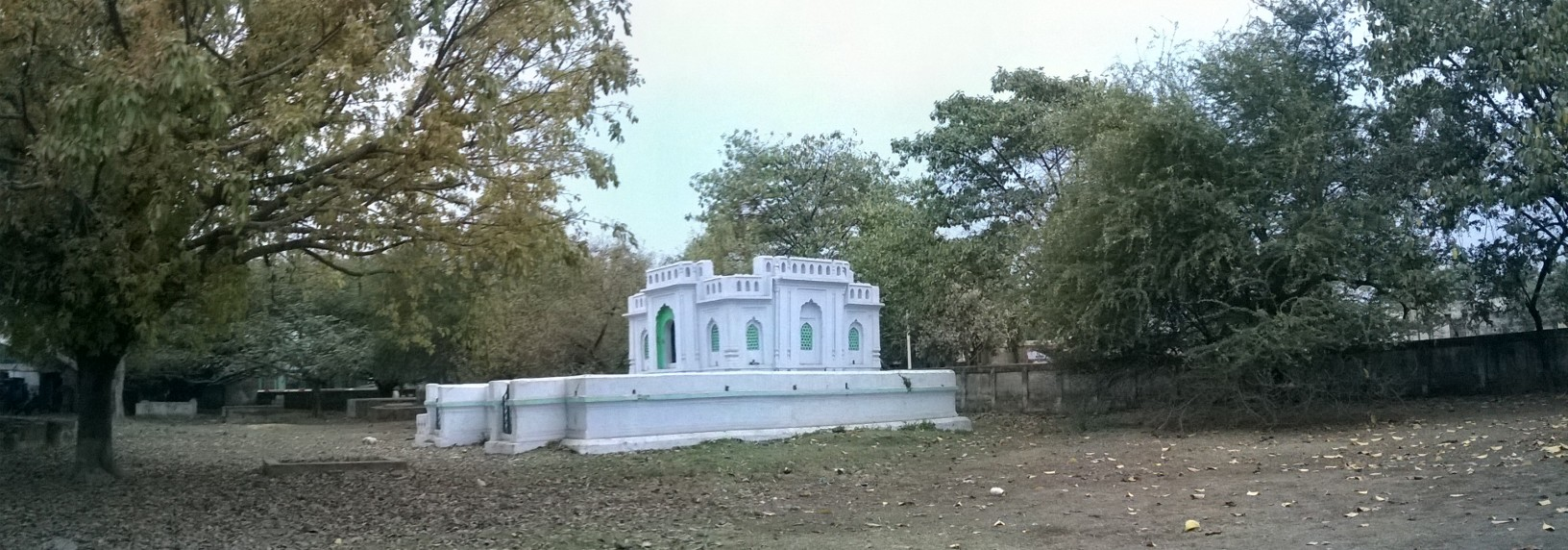 The Panoramic view of Tomb of Hazrat Shah NaimUllah Bahraichi khalifa of Hazrat Mirza Mazhar Jan-e-Janaan Dehalvi